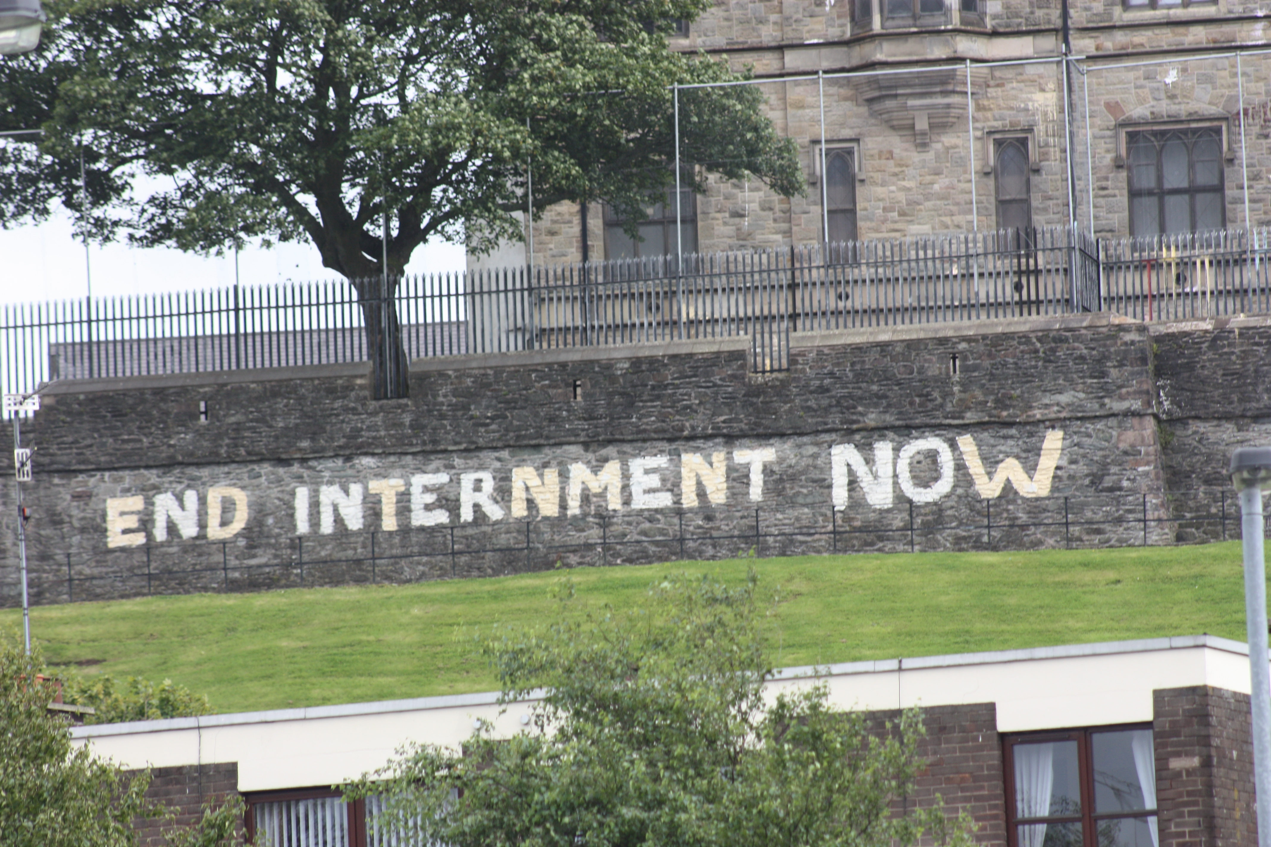 Graffiti on the Walls of Derry, Bogside, Derry, County Londonderry, Northern Ireland, August 2009